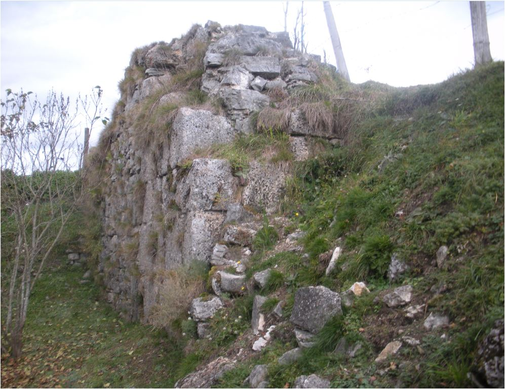 Ruins of a wall